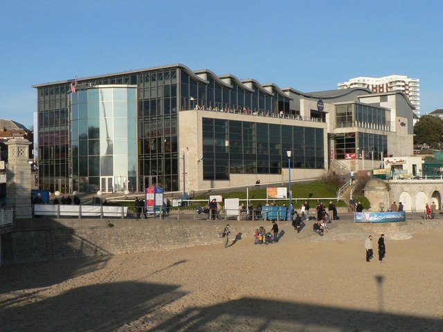 Bournemouth: the Waterfront building Erected in the late 1990s, this is one of Bournemouth's most controversial buildings ever. It contains a pub (whose balcony can be seen here), Chinese restaurant and Kentucky Fried Chicken, all surrounding the central IMAX theatre - for more discussion on which, see 641820. As of March 2013 this building was demolished